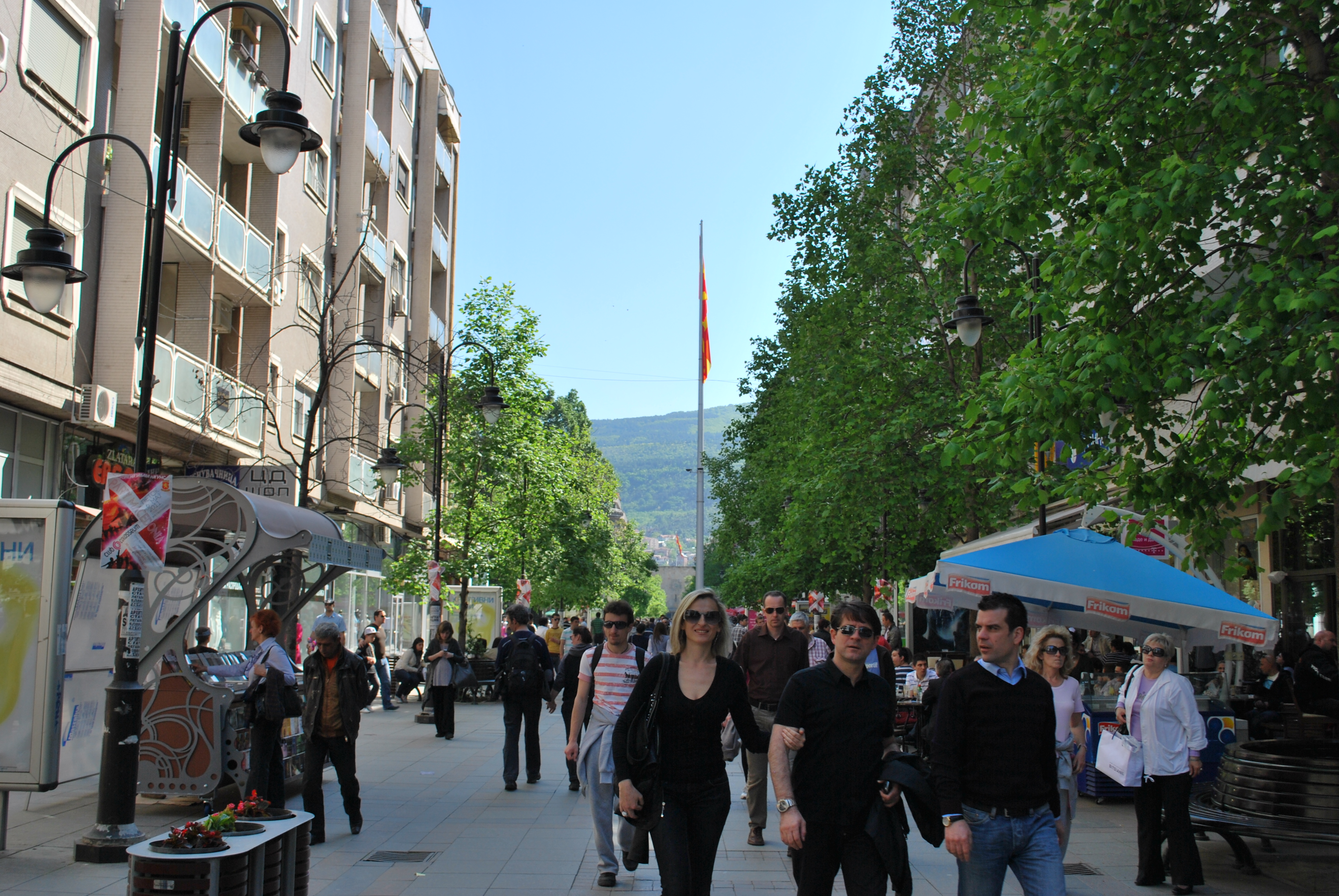 Macedonia Street in Skopje